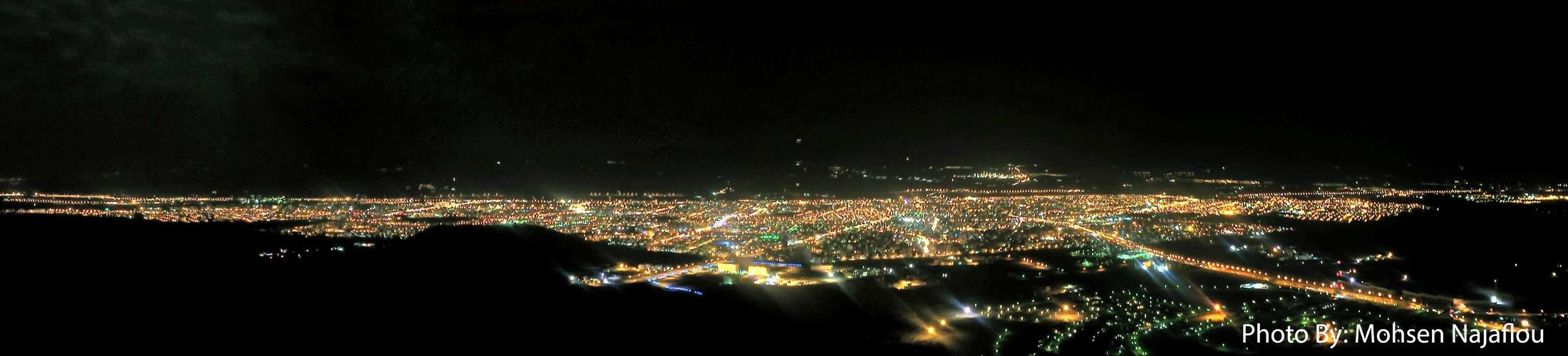 Zanjan night view from gavazang summmer 2013